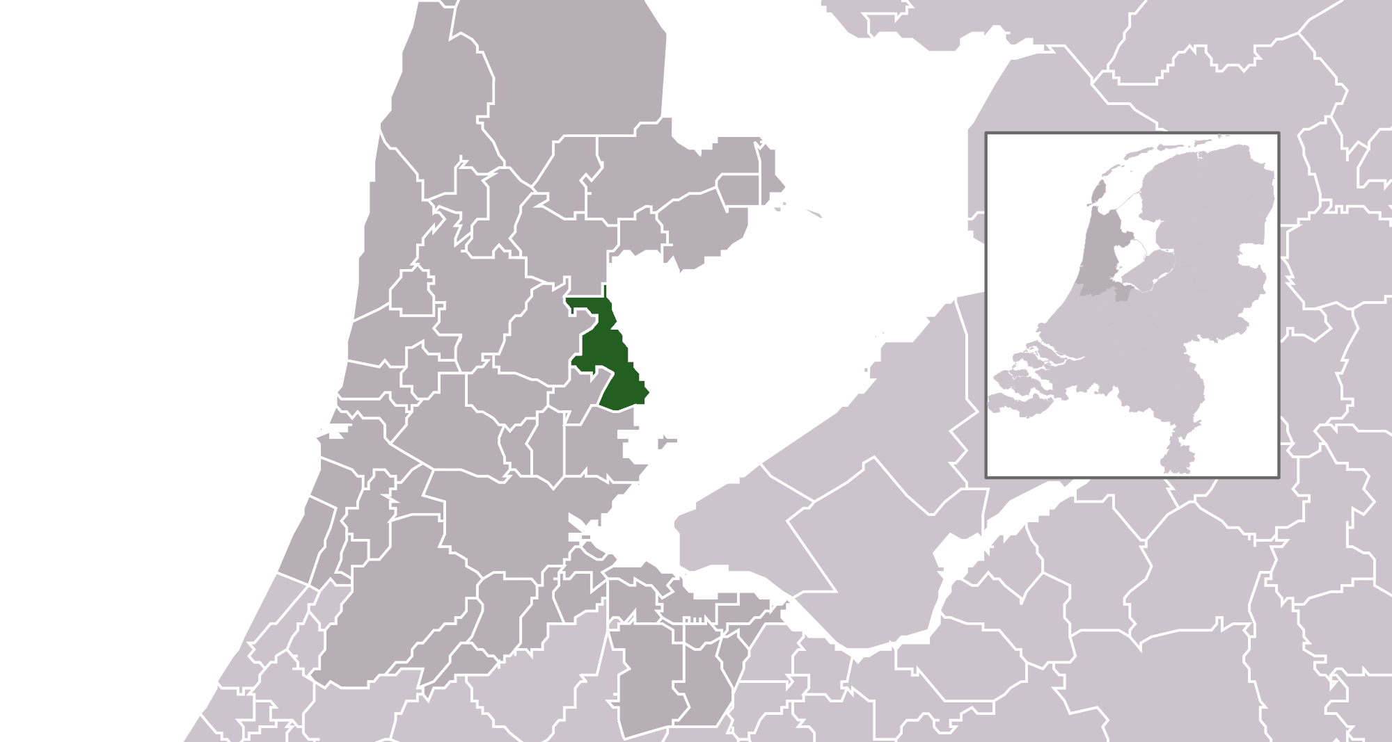 Location maps for the 441 municipalities in the Netherlands. Boundaries 1/1/2009